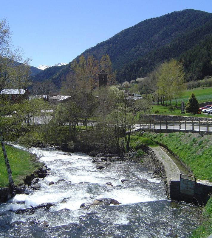 View of La Cortinada, Ordino, Andorra and of the Valira del Nord river